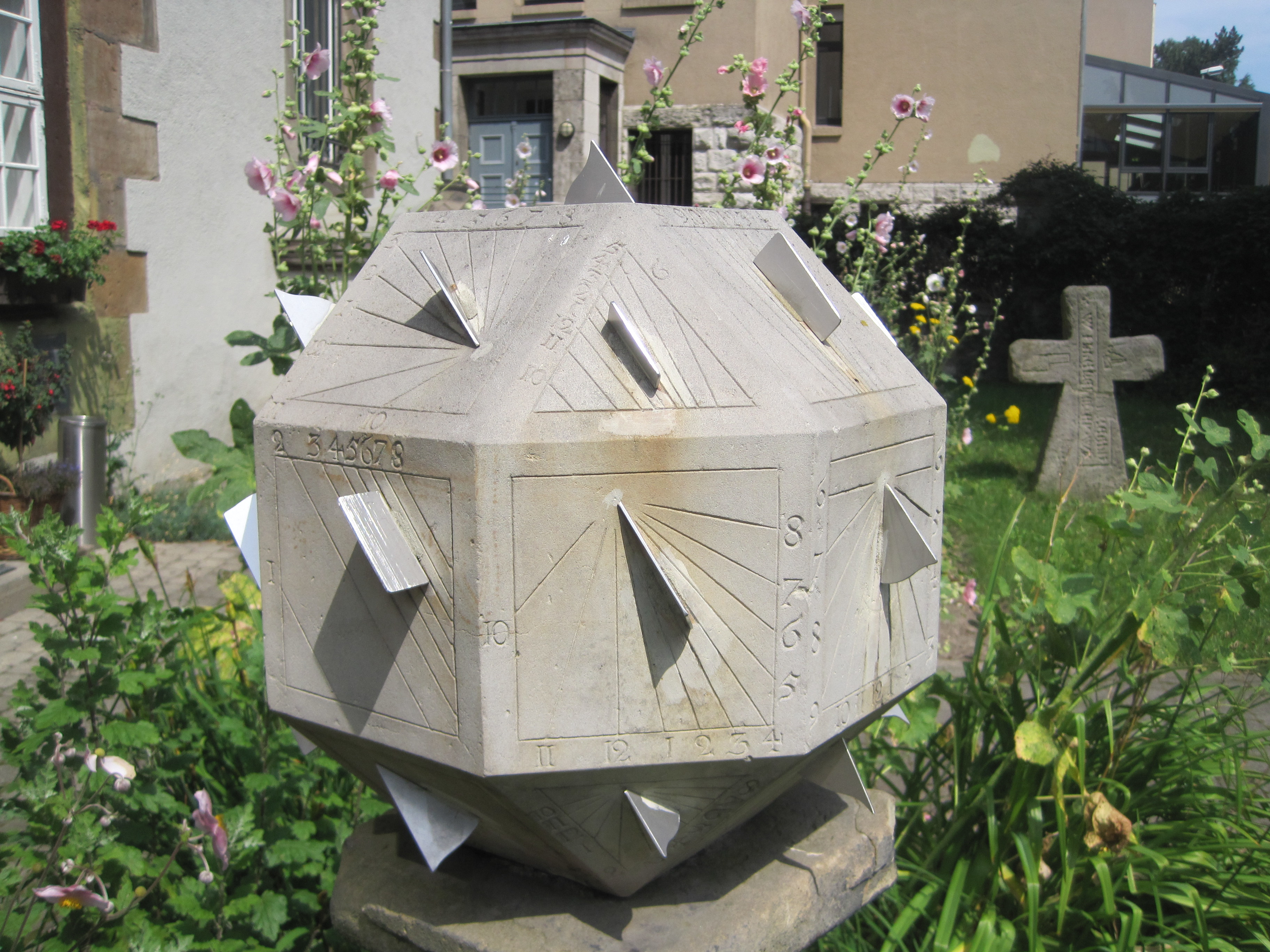 Polyhedronic sundial at Städtisches Museum, Göttingen, Germany check usage